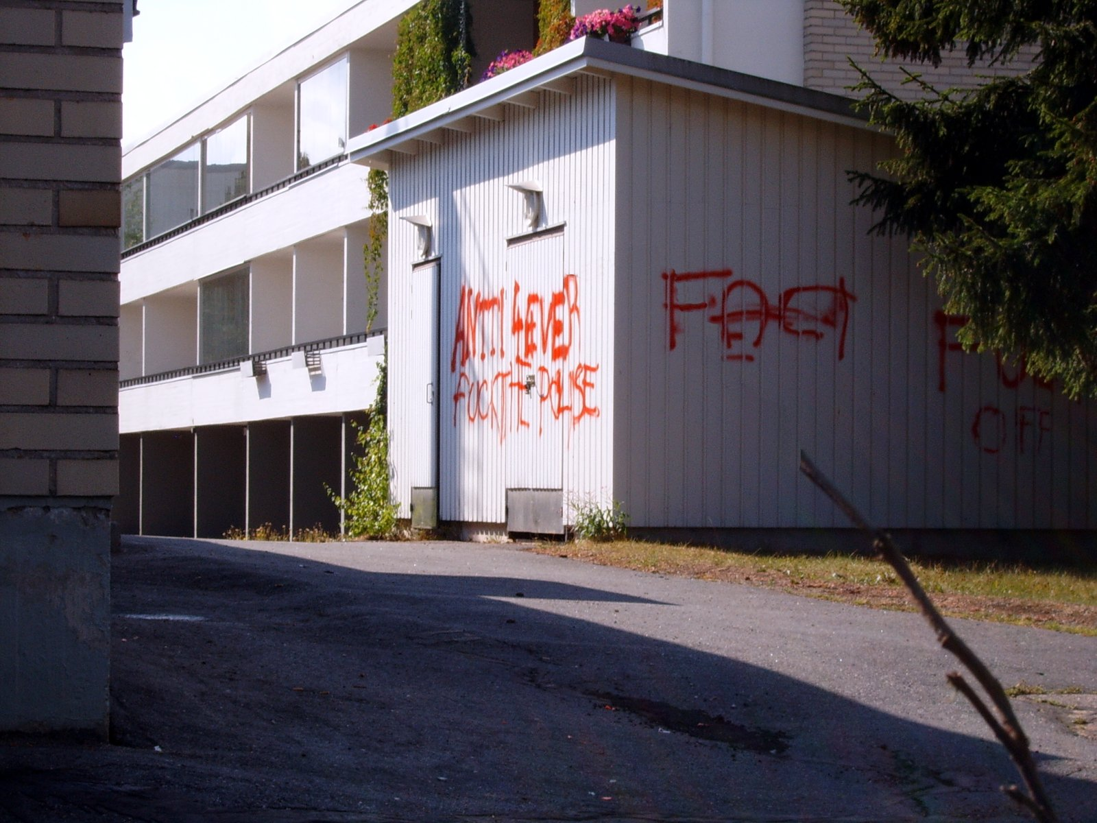 Example of vandalism. Building has been smudged with spray paint.